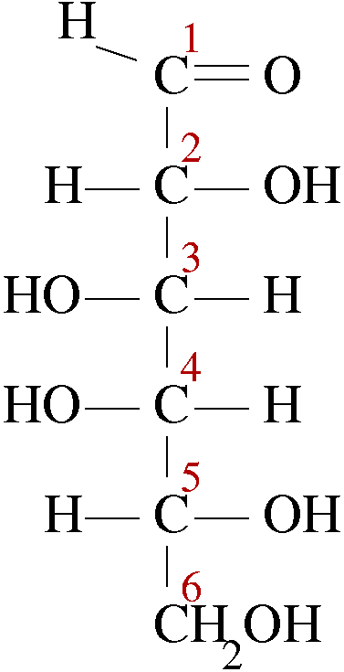 d-galactose structure. Own work.